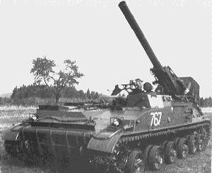 2S4 Tyulpan